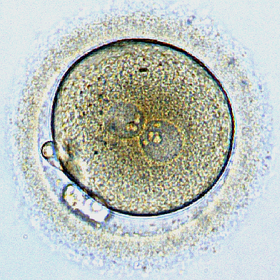 A human zygote. A first day of development. Both male and female pronuclei, a polar body are clearly visible.